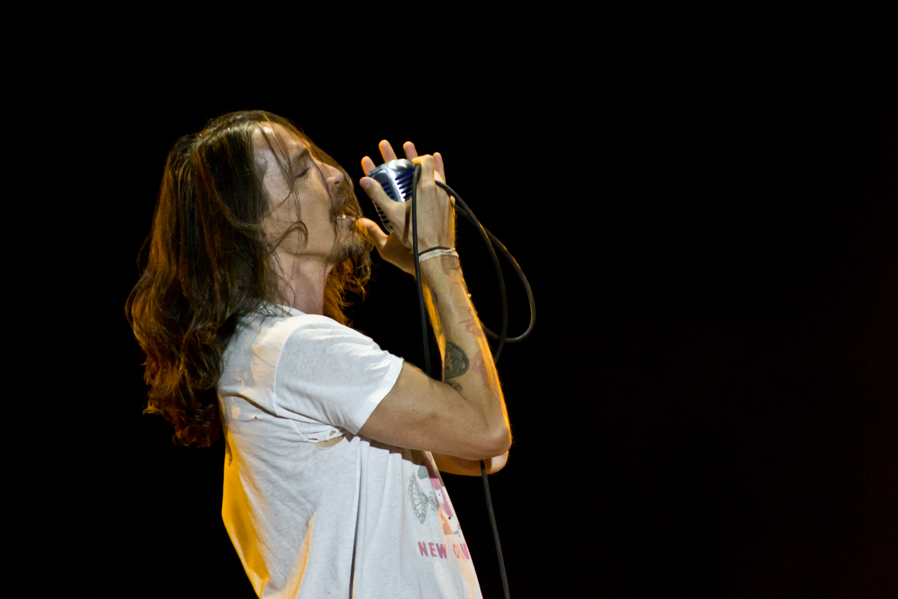 Incubus in Rock in Rio Madrid 2012.